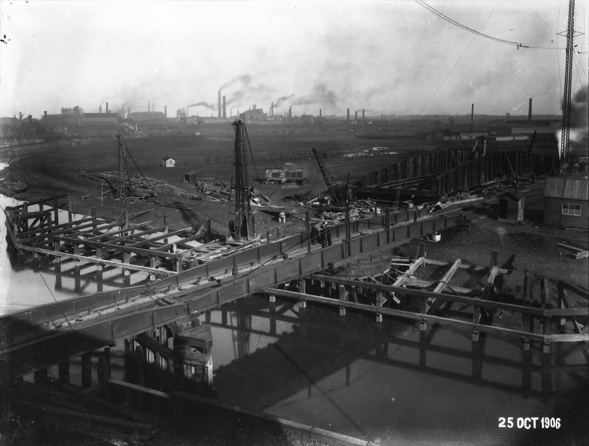 Image of Wilmington Swing bridge, river Hull, Wilmington, Kingston upon Hull under construction. The original bridge is over the river, the new bridge, to be launched to a position north of the old bridge (left) is on the far bank behind